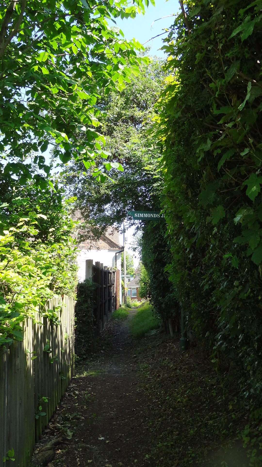 Part of Gough's Jitty, Broseley